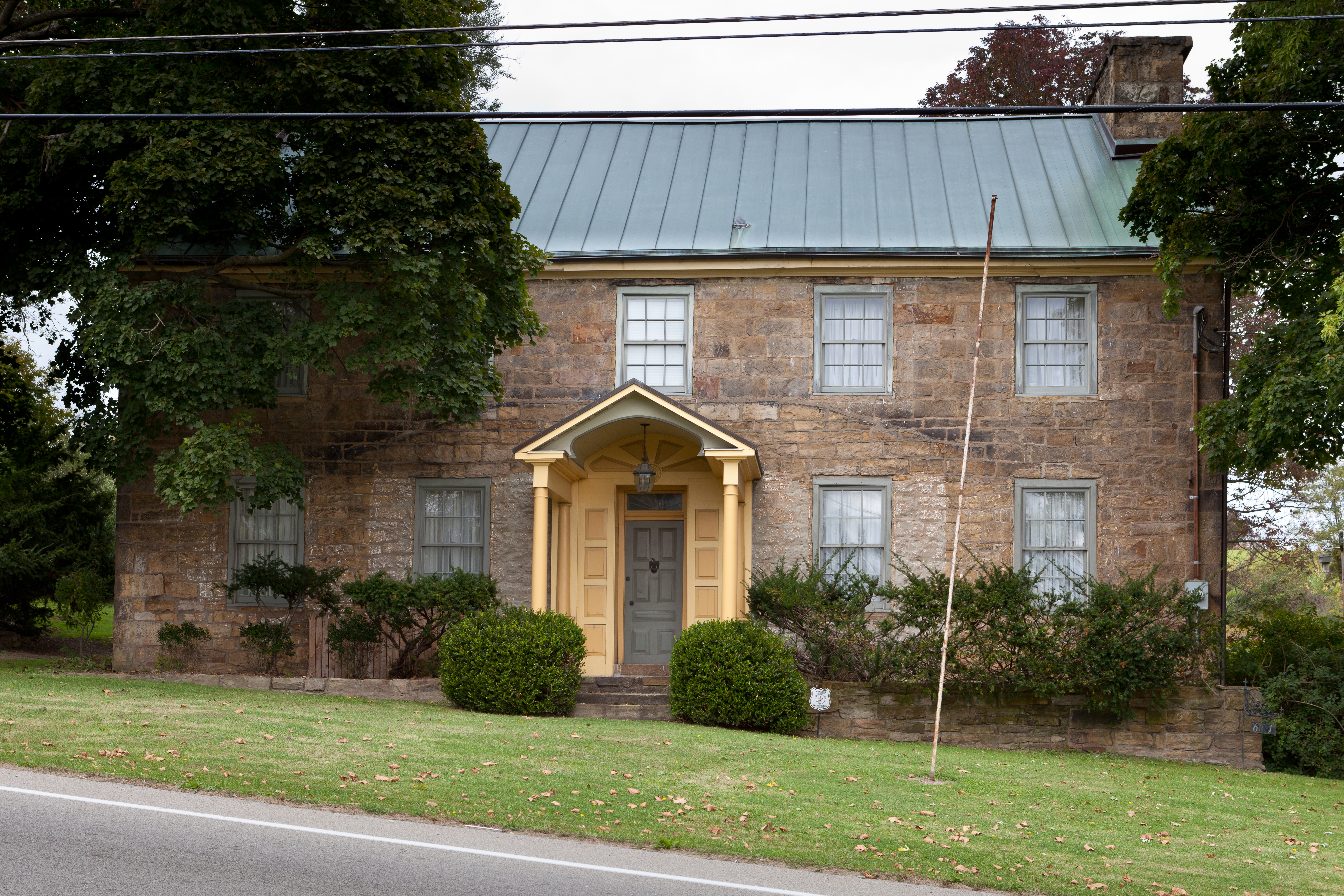 Johnson-Hatfield Tavern is a historic tavern house located at Redstone Township, Fayette County, Pennsylvania. It was built about 1817, and is a 2 1/2-story, 5-bay, stone building with a center hall plan.